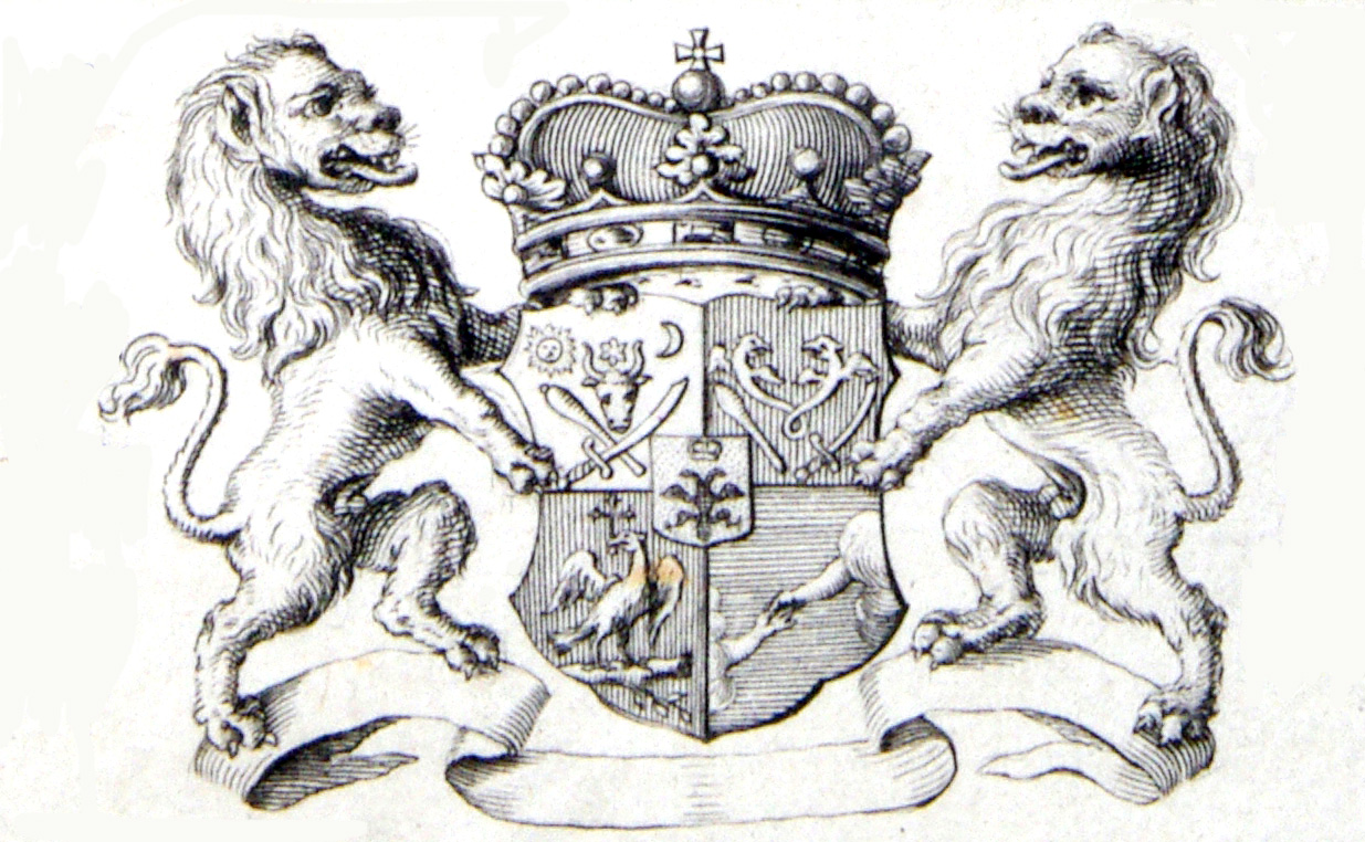 CoA of Dimitrie Cantemir as Russian prince